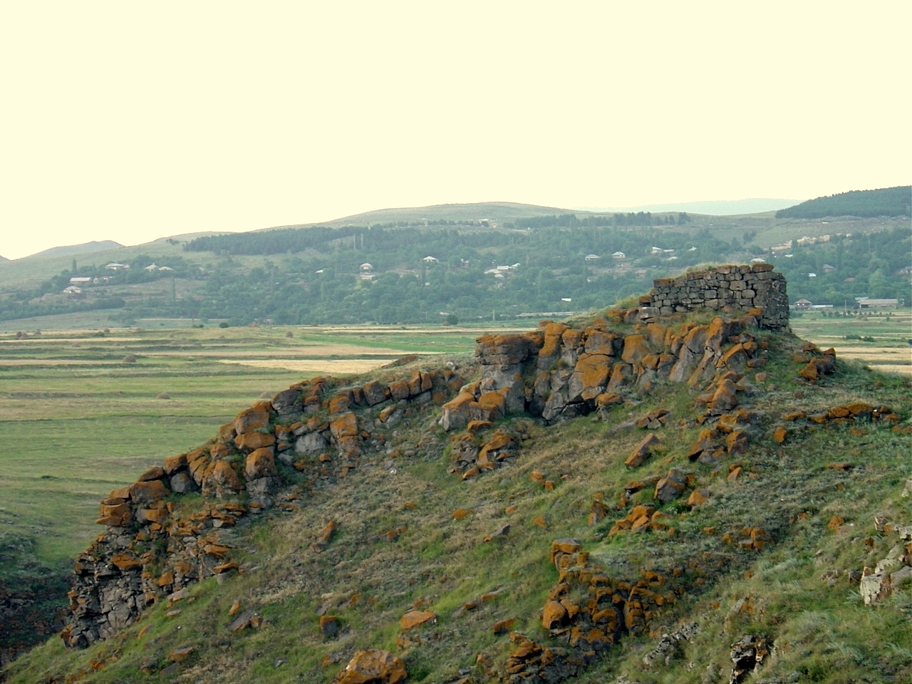 Saro Cyclop Buildings. View to the village Khizabavra "ახალი ციხე" ანუ კოშკი. სოფ. ხიზაბავრის ხედი